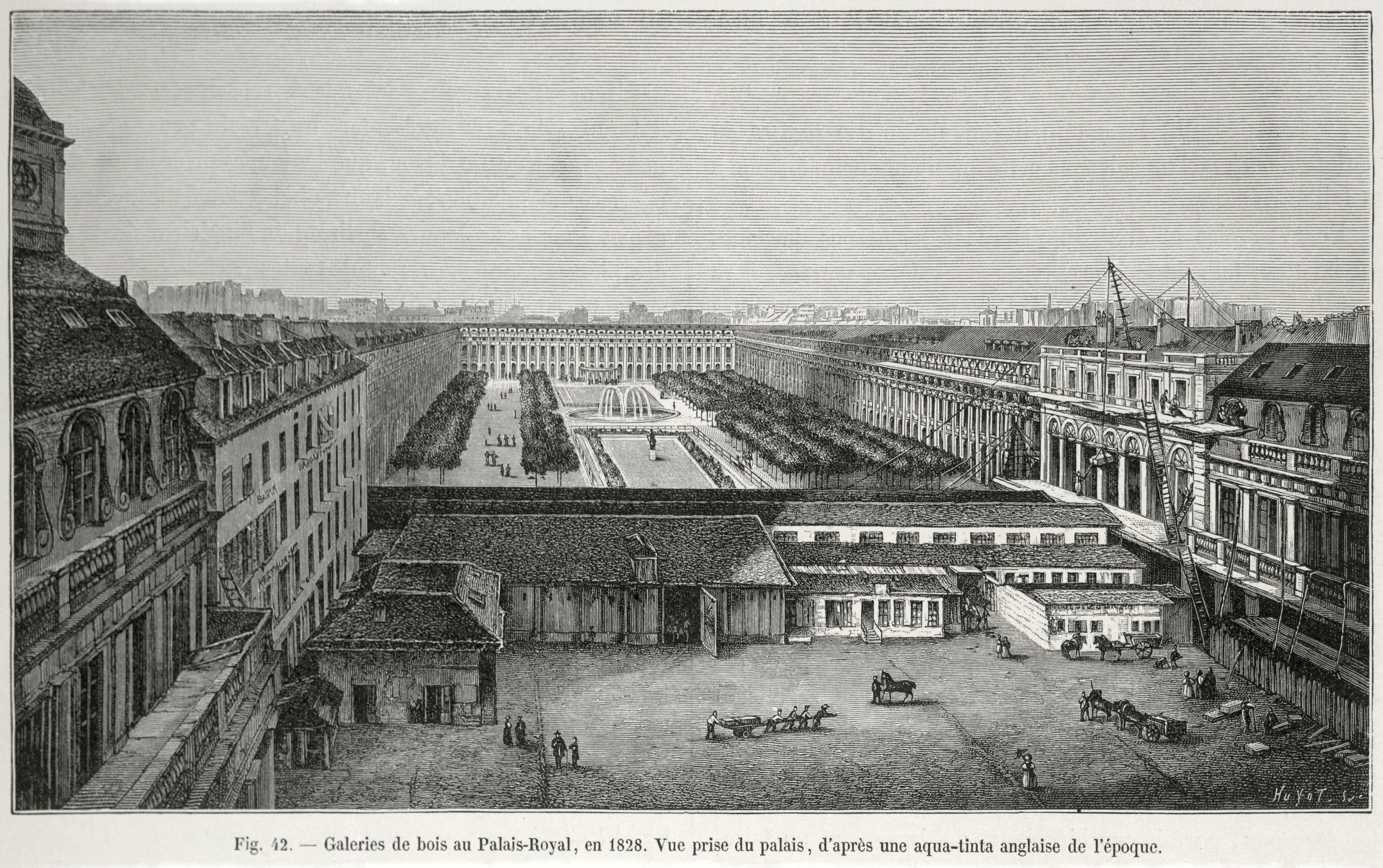 The Galeries de Bois were established in 1784 in the garden of the Palais-Royal, located in the first arrondissement. In addition to over one hundred boutiques, the Galeries featured circus-like attractions that served as entertainment to the visitors.